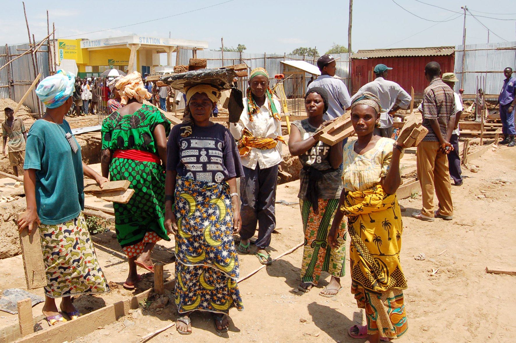 Many women working on the construction site of Beyenzi future market in Burundi. The new market is expected to benefit approximately 2000 traders